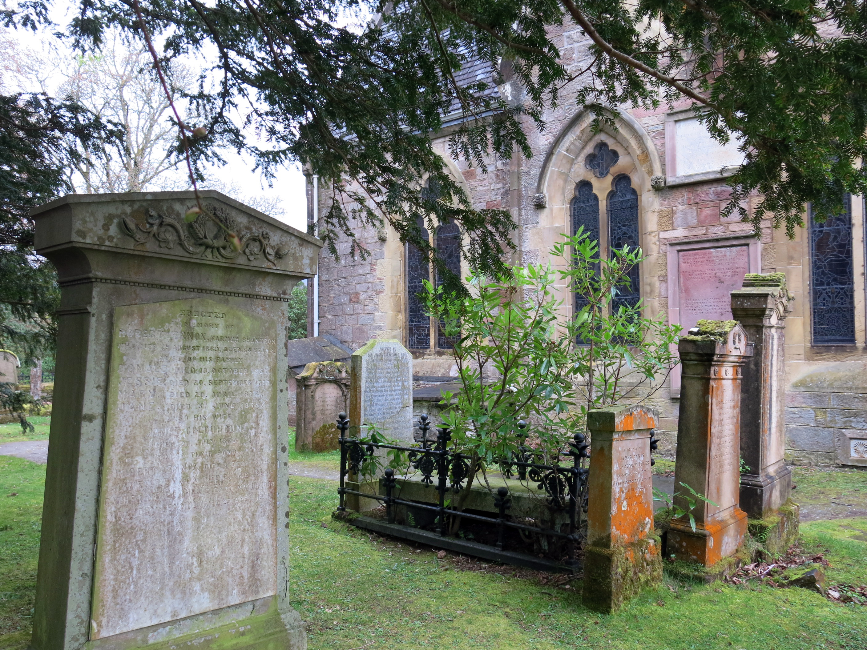 Luss, St Kessog's Church And Churchyard.